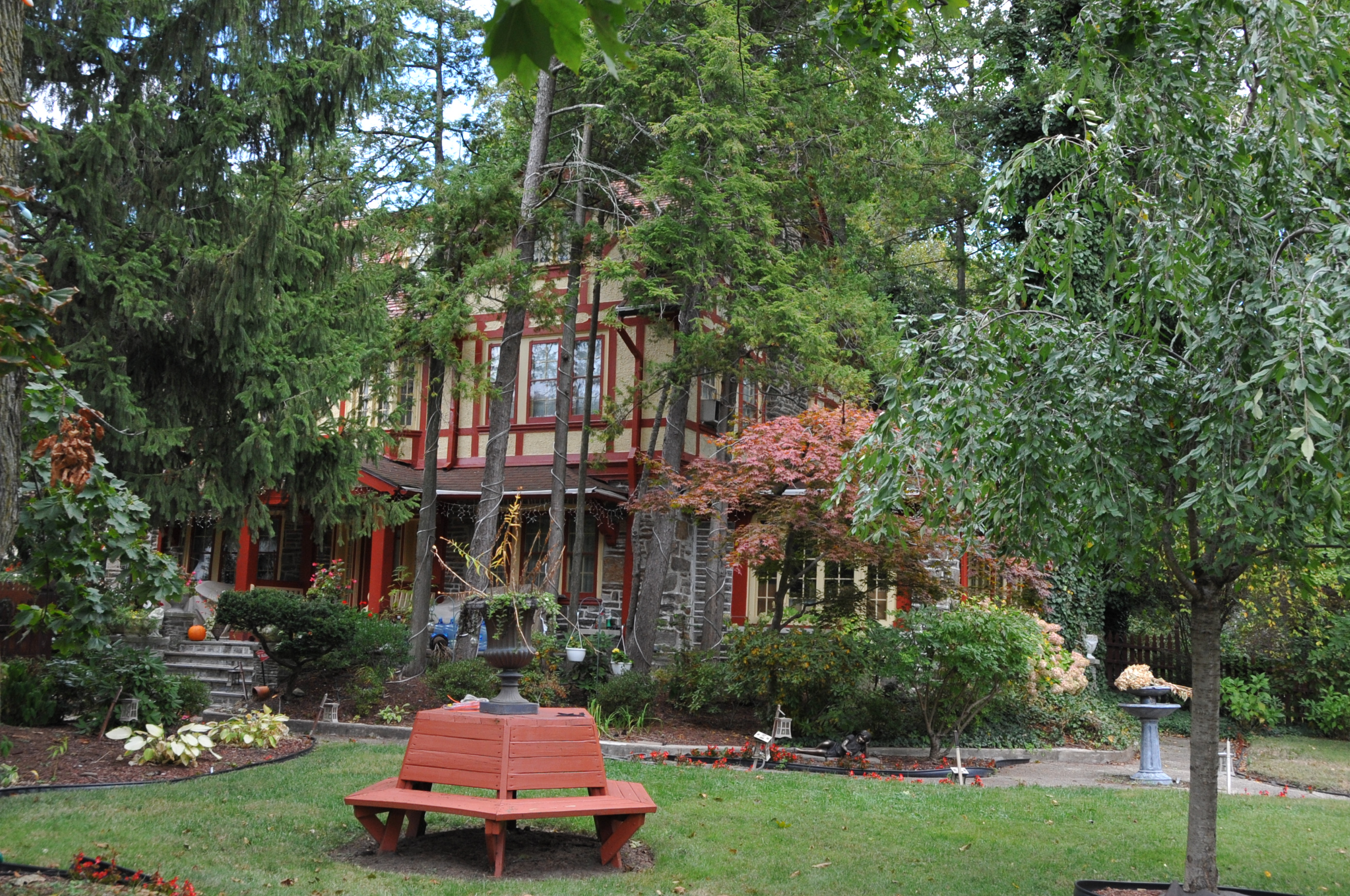 CIVIL RIGHTS LEADER AND ACTIVIST FOR WOMEN, SHE WAS THE FIRST AFRICAN AMERICAN SECRETARY OF STATE IN THE NATION. CHAMPIONED THE PA EQUAL RIGHTS AMENDMENT AND POLICIES ON AFFIRMATIVE ACTION, VOTER REGISTRATION BY MAIL, AND LOWERING THE VOTING AGE TO 18. SPEARHEADED THE CREATION OF THE COMMISSION ON THE STATUS OF WOMEN & LED A SUCCESSFUL CRUSADE CRITICAL OF THE MUSIC INDUSTRY AND LYRICS DEMEANING TO WOMEN, AFRICAN AMERICANS, AND CHILDREN. SHE LIVED IN THE HOUSE PICTURED FOR 47 YEARS